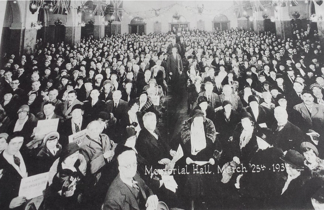 1931 Ku Klux Klan convention in the Royal Canadian Legion's Memorial Hall. Edmonton Alberta, Canada. Figure at bottom center wearing glasses and suit and holding hat may be Edmonton's 20th Mayor Dan Knott.